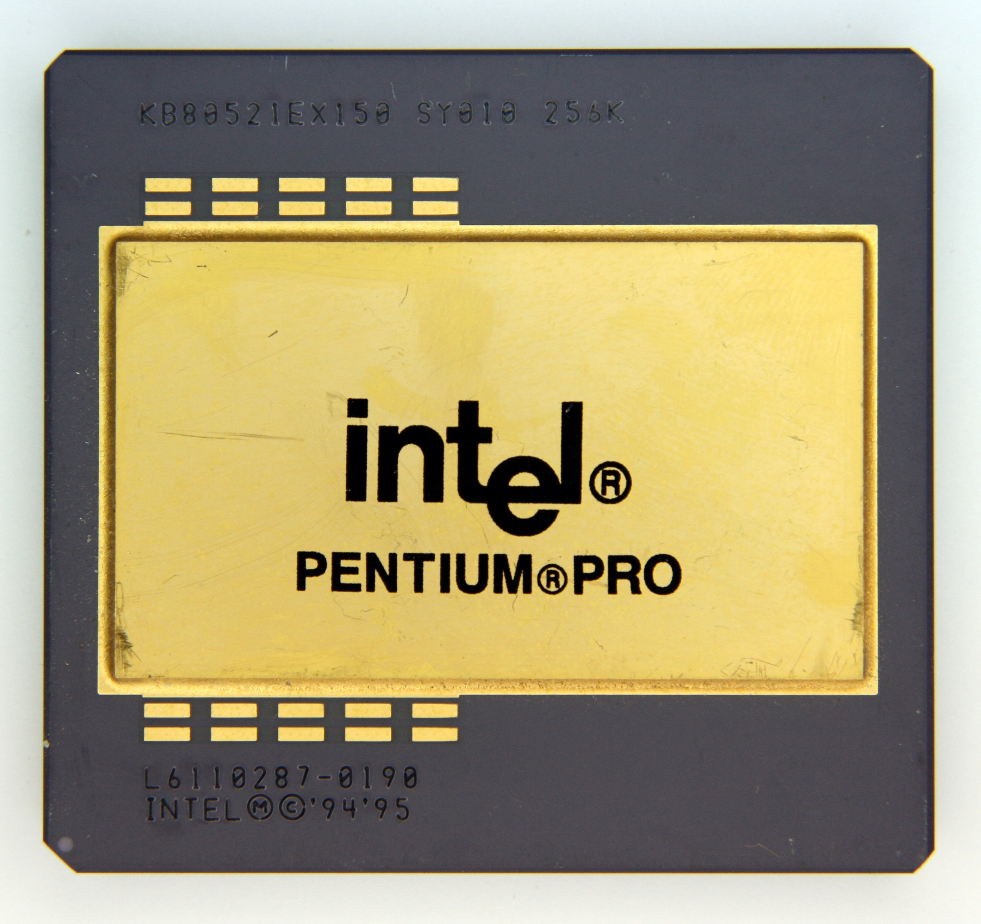 IC photo